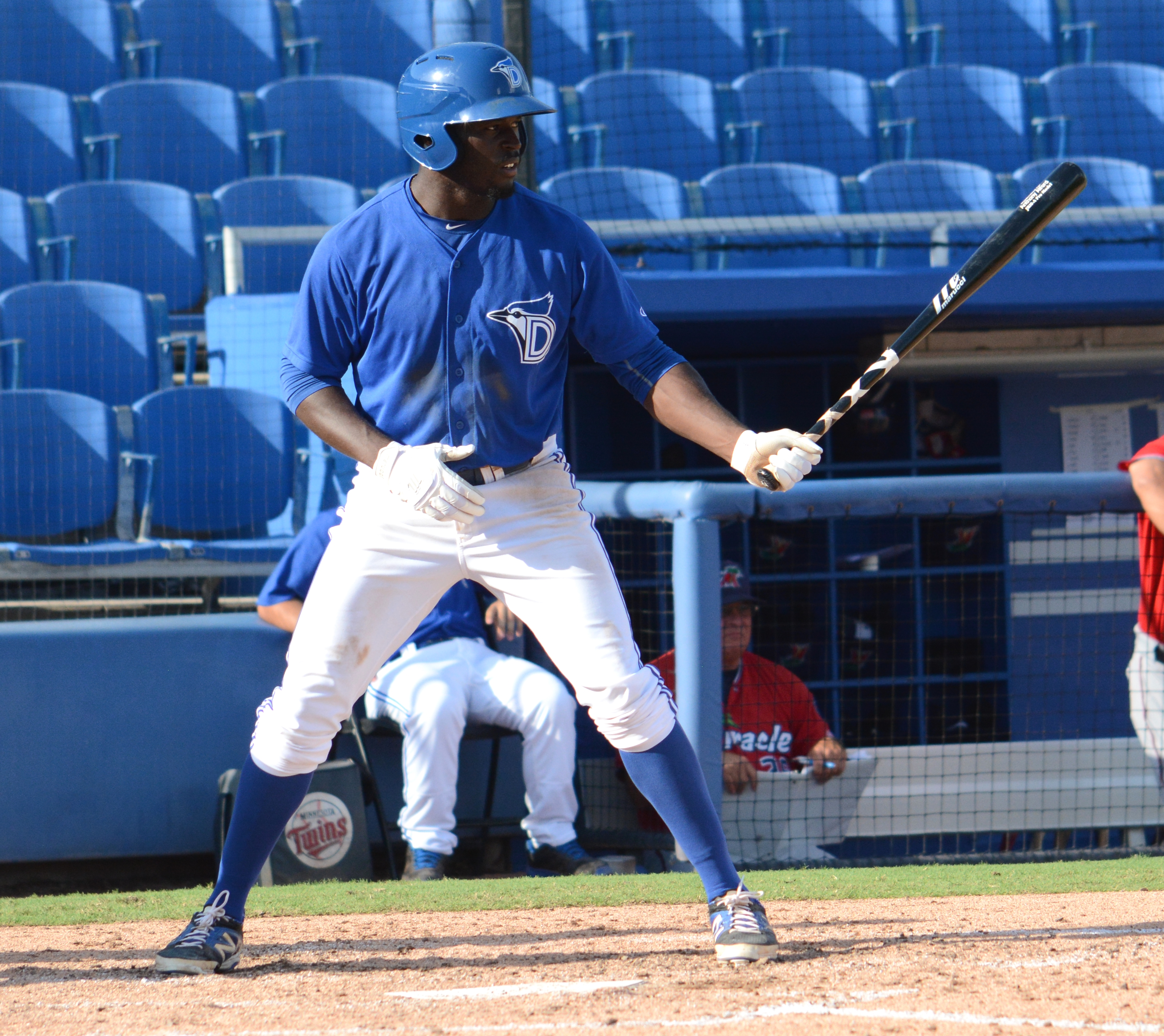 Anthony Alford with the Dunedin Blue Jays on June 28, 2015.